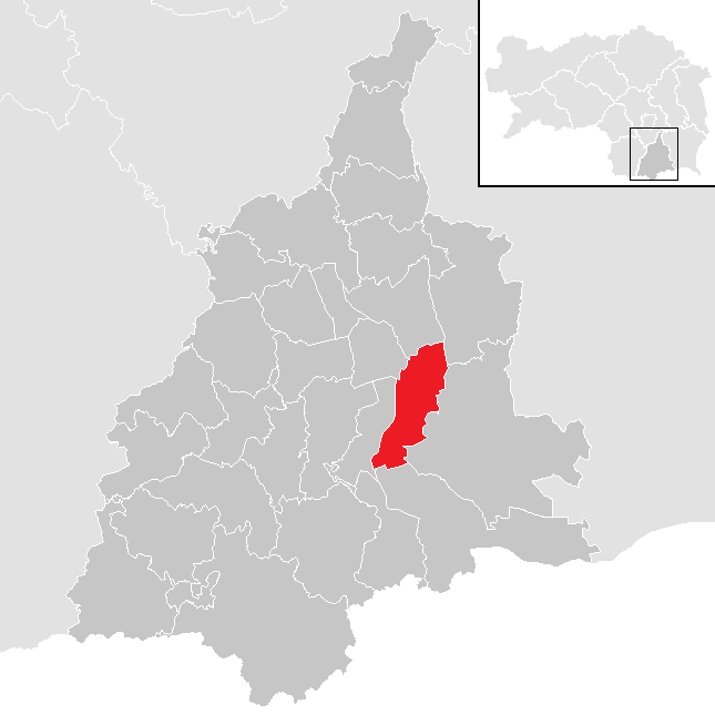 District Leibnitz